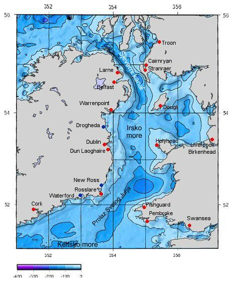 A map of the Irish Sea